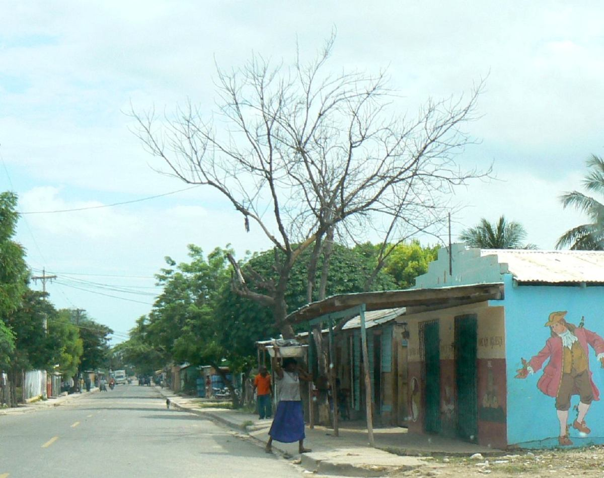 view of Pedernales, Dominican Republic